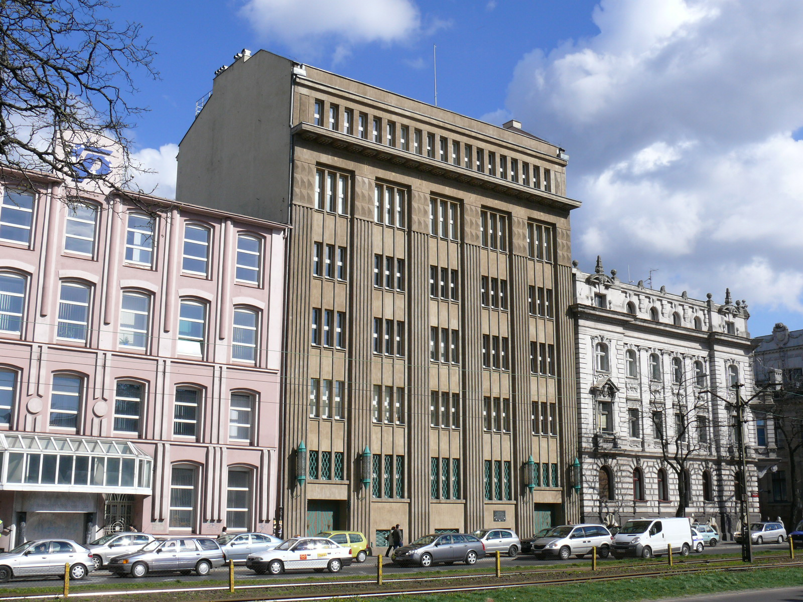 PAST (Polish Telephone Joint-stock Company) building in Łódź, al. Kościuszki 12. Arch. Józef Kaban, 1927-28